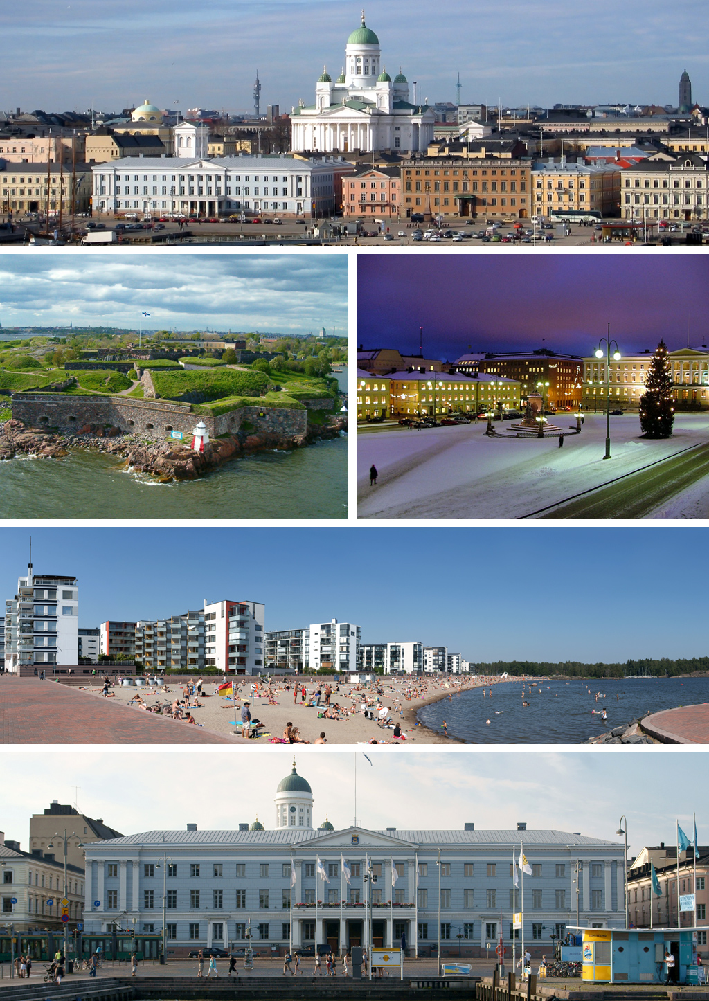 Helsinki Montage